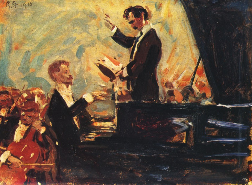 Depicted person: Alexander Skrjabin; Depicted person: Serge Koussevitzky